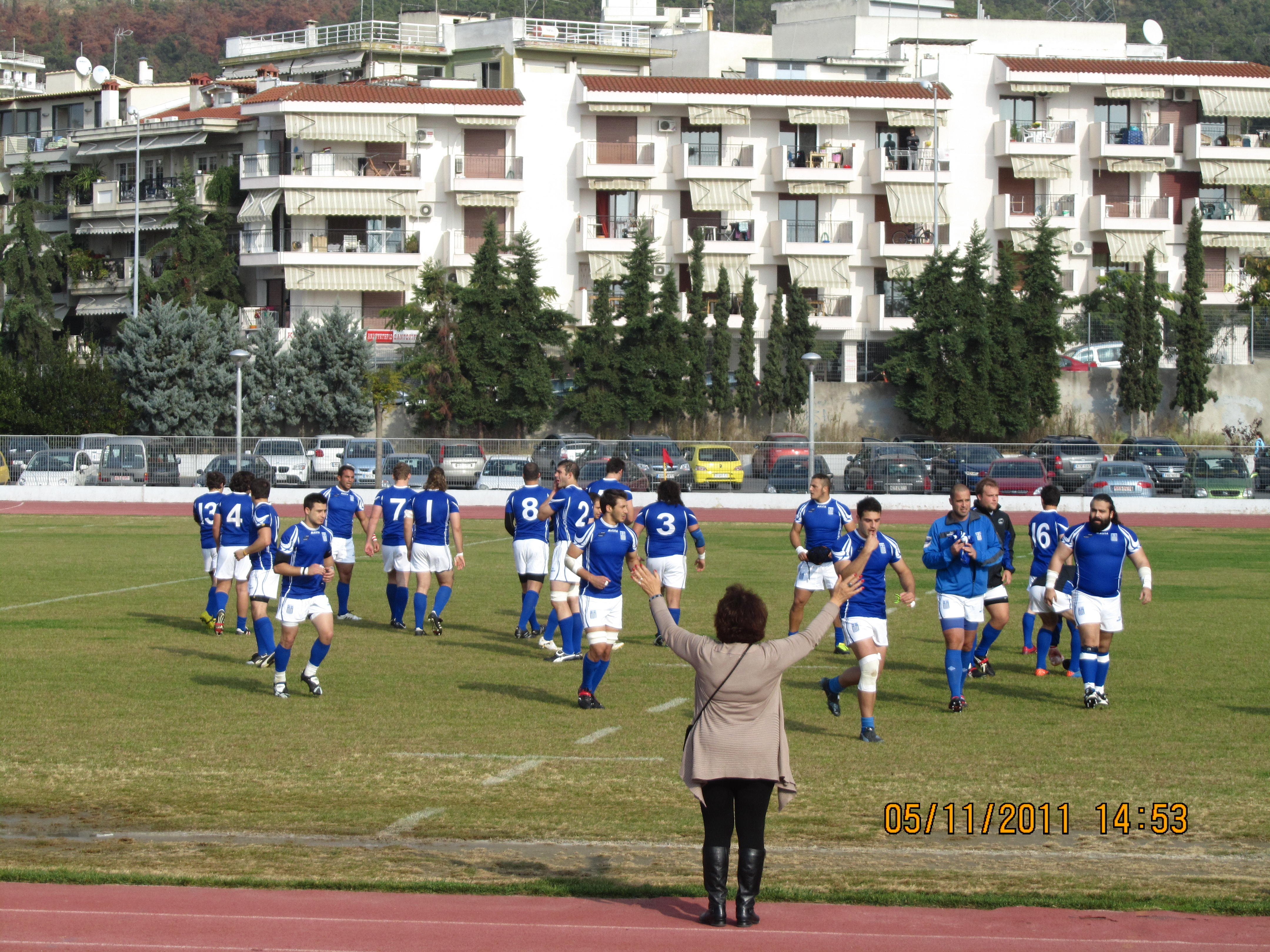 Greek players of the rugby national team